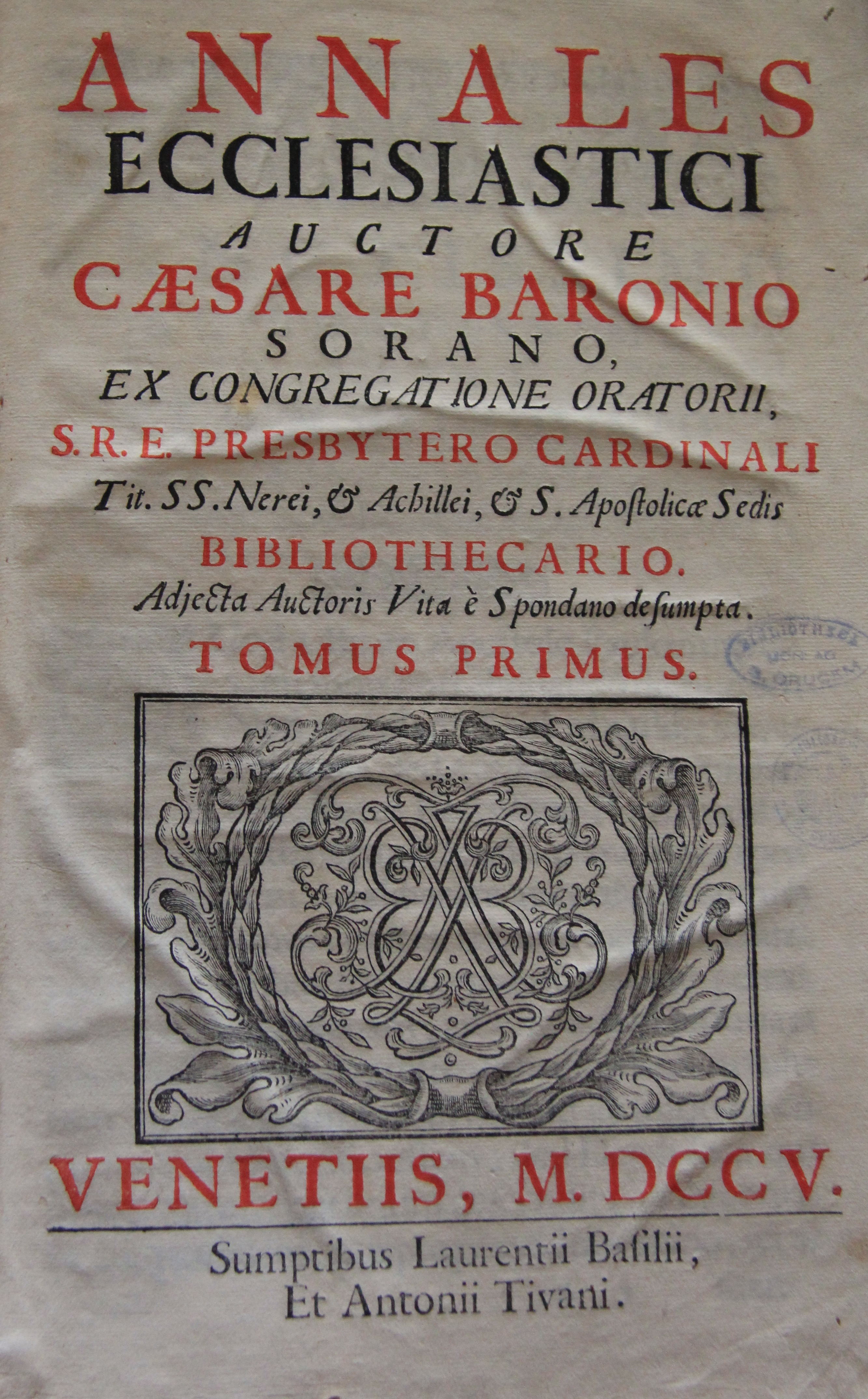 Cover Page of the famous work by Cesare Baronius, the Annales Ecclesiastici